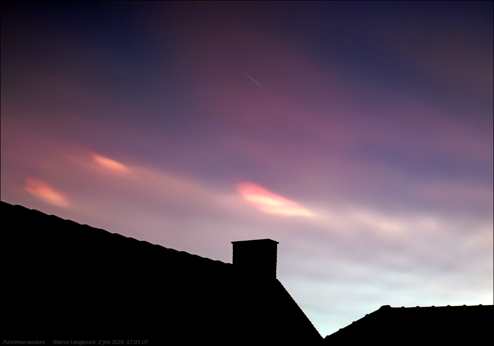 Nacreous clouds imaged from 51N in the Netherlands, 2 Feb 2016, half an hour after sunset.